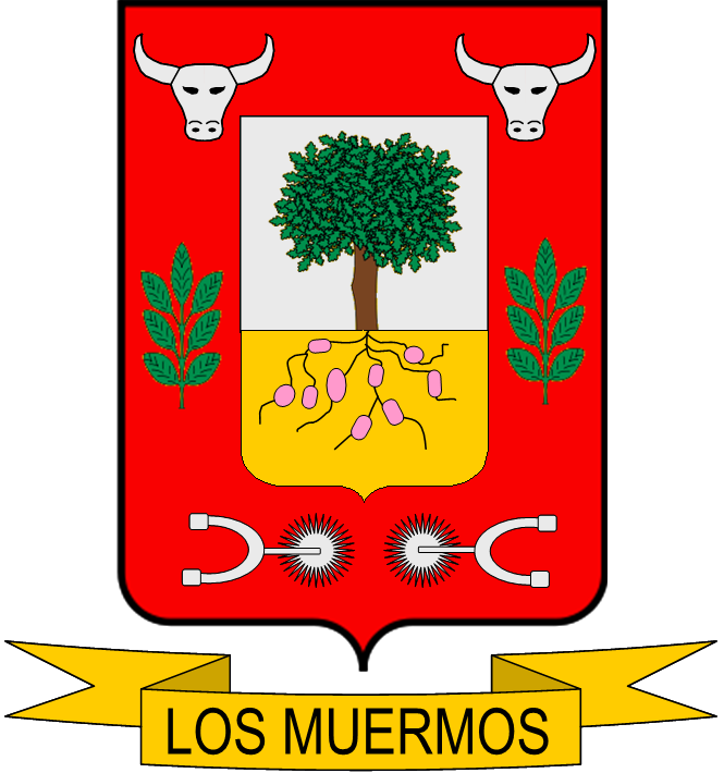 Coat of arms of Los Muermos commune (Chile)